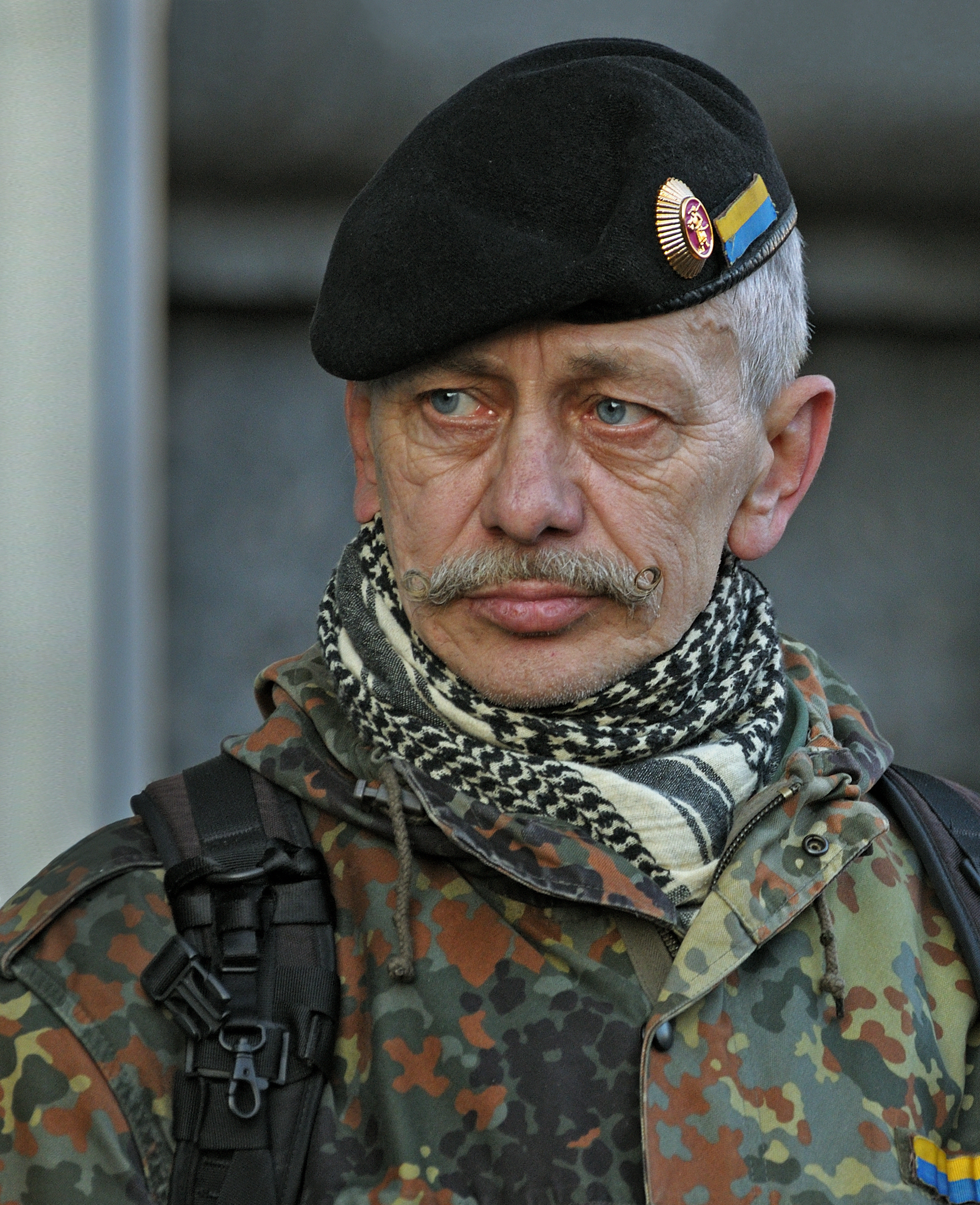 Euromaidan 2014 in Kyiv. Guard of Maidan